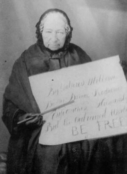 69 year old Anne Knight (2 November 1786 – 4 November 1862)[1] was a social reformer noted as a pioneer of feminism. date of pic 1855. 1855 – Image: Library of the Religious Society of Friends in Britain, Friends House, Euston Rd, London "By tortured millions, By the divine redeemer, Enfranchise Humanity, Bid the Outraged World, BE FREE".